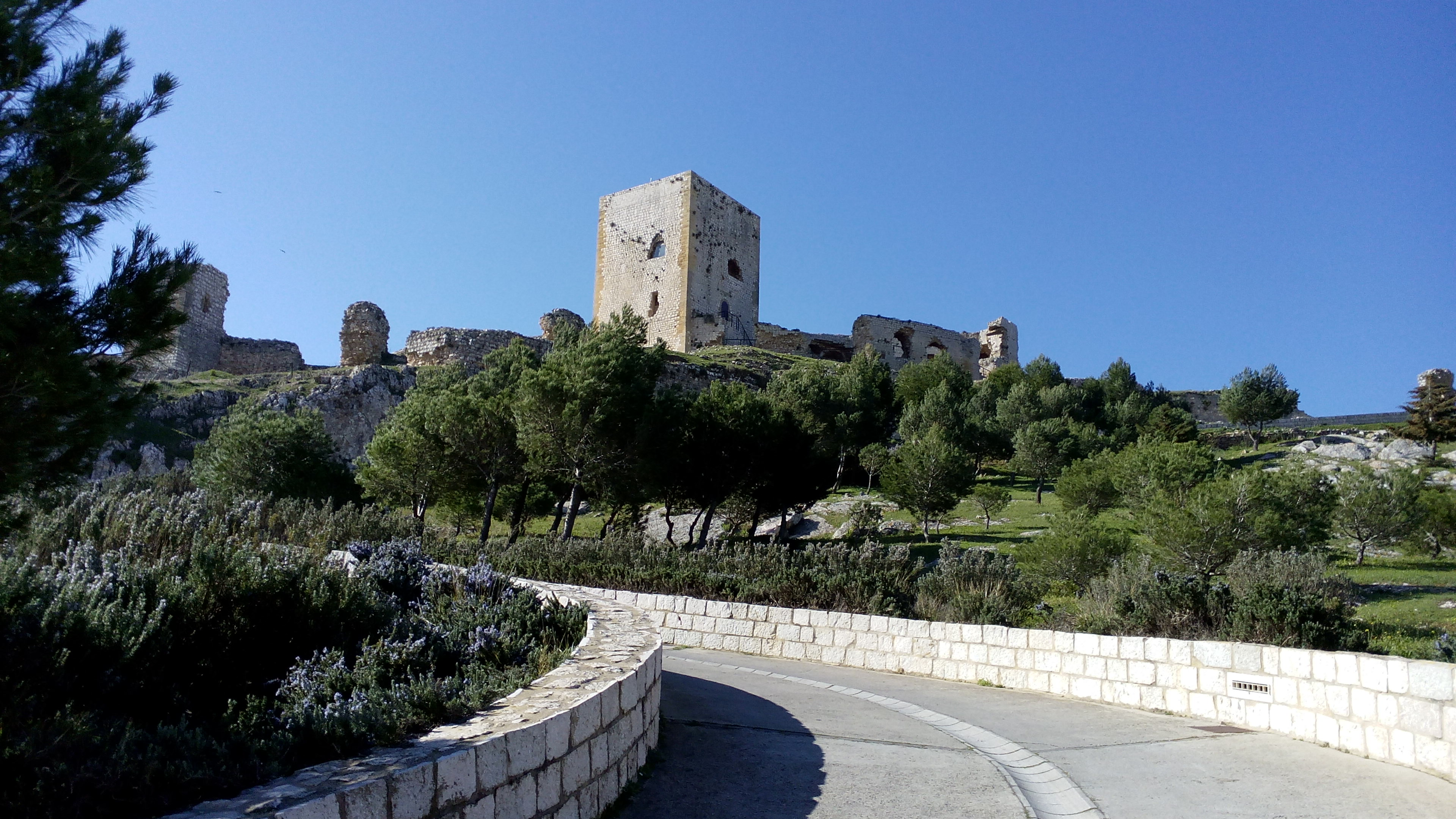 Castillo de Teba 2015